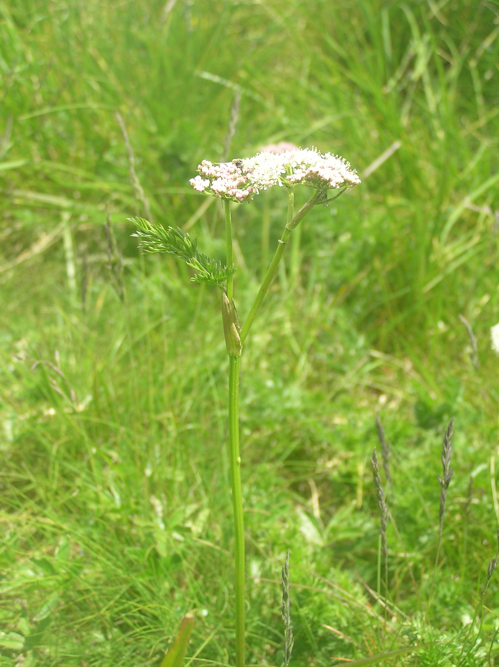 Ligusticum muttelina, Králický Sněžník, Czech Republic